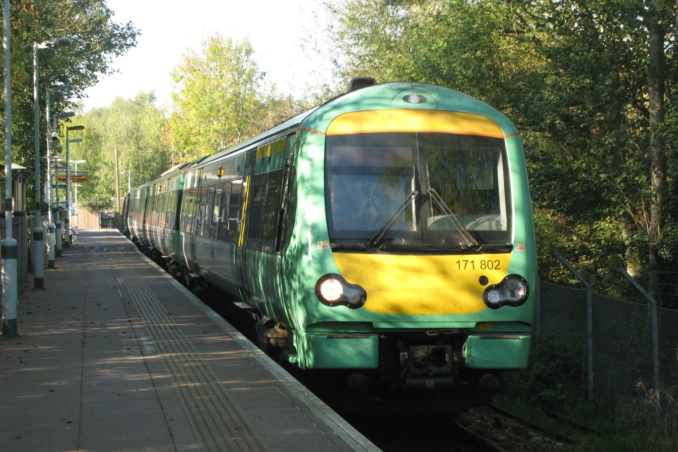 Southern 'Turbostar' 171802 prepares to leave Uckfield with a Sunday morning service to Oxted.